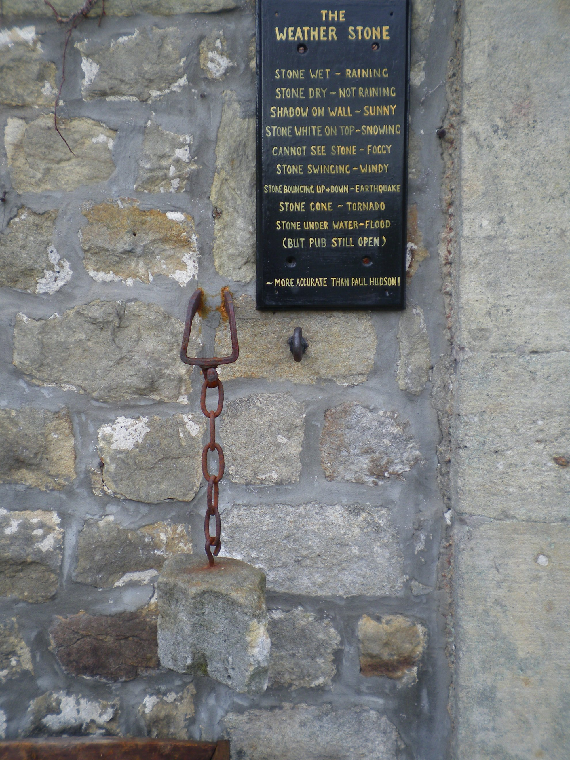 Weather Stone Reckoned to be more accurate than the BBC's Paul the Weatherman!